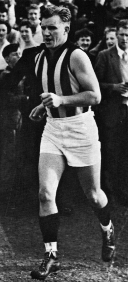 Australian rules footballer Bob Rose